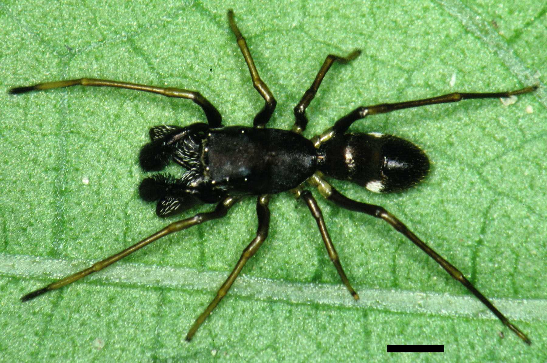 Male Sarinda hentzi jumping spider from Alachua County, Florida, USA